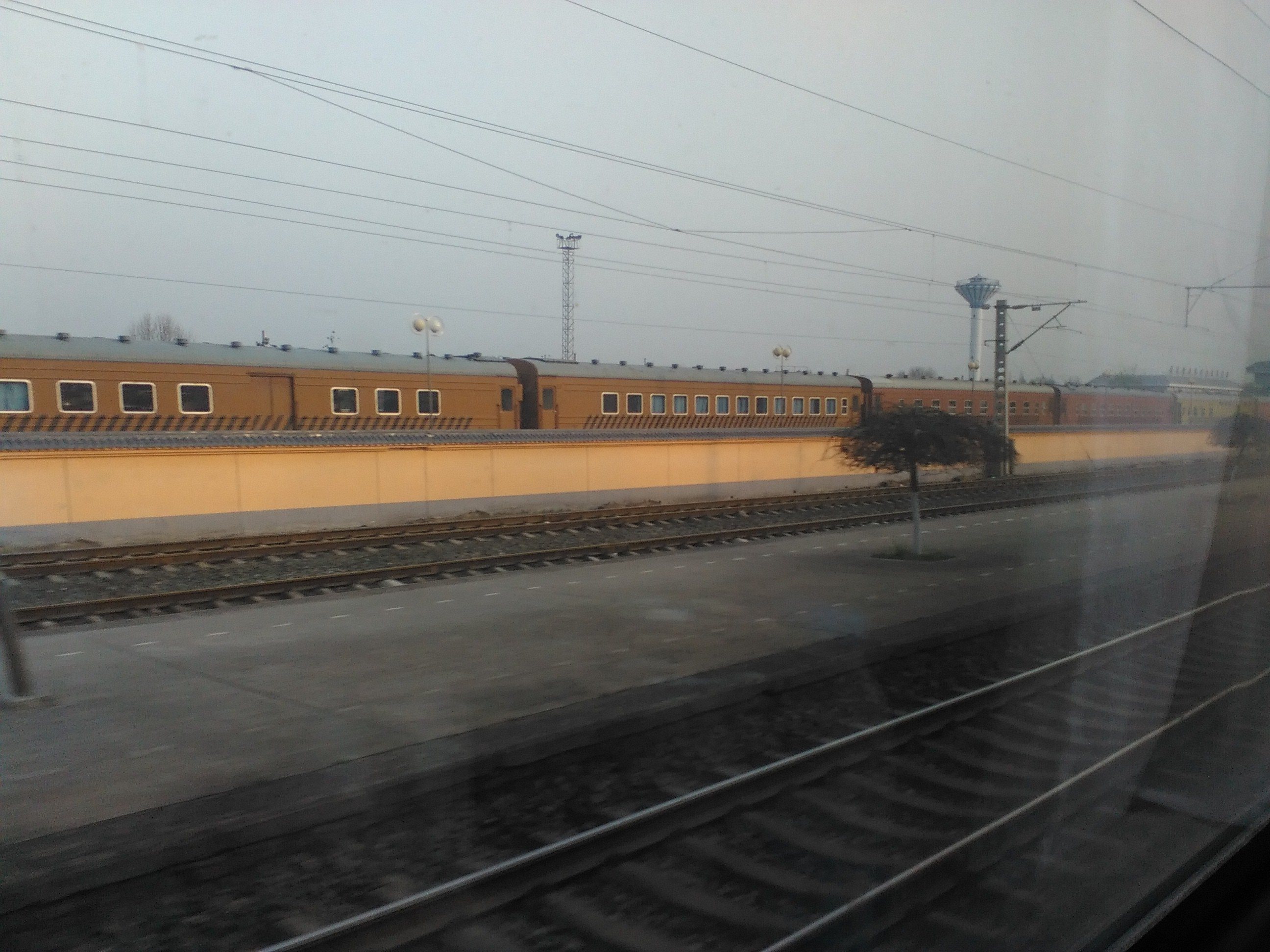 Platform of Lintong Railway Station 中文（中国大陆）: 临潼站站台